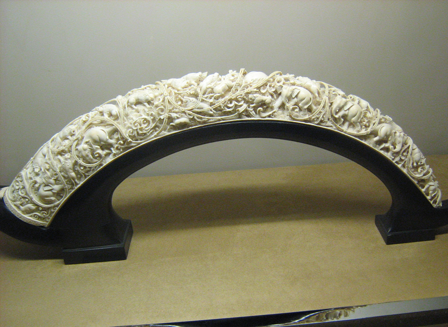 Decorated ivory carving in the Sahebqeraniyeh Palace, Saadabad complex, Tehran, Iran.